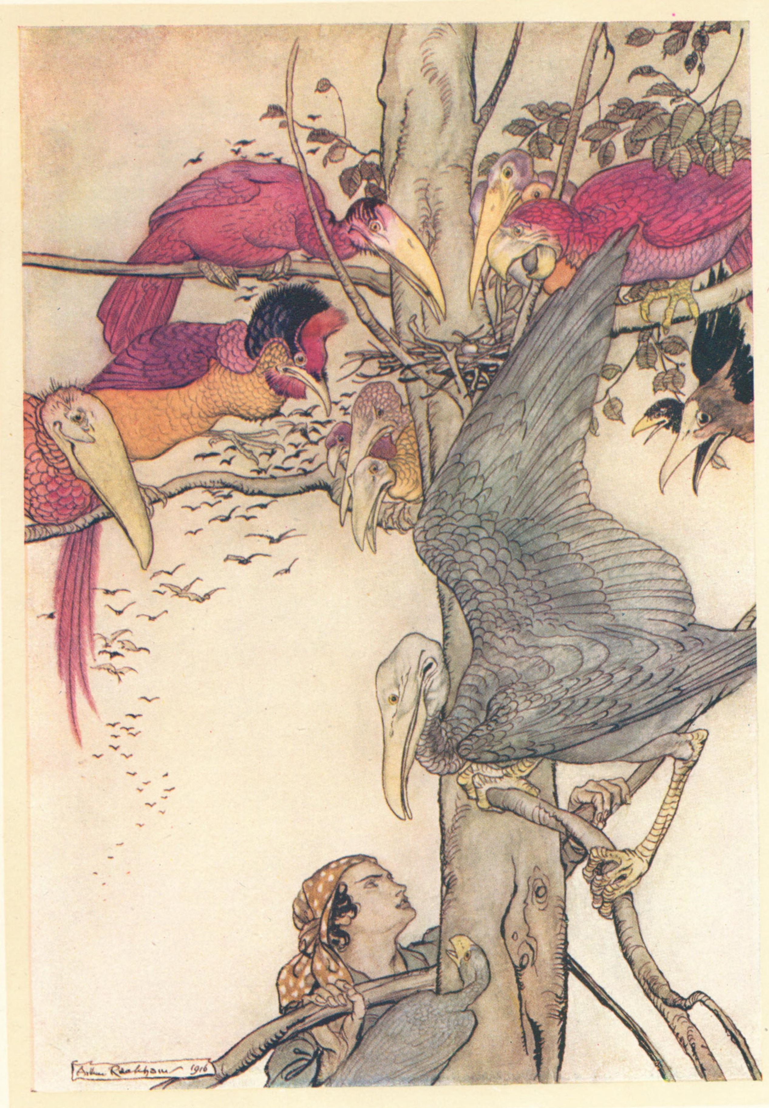 "The birds show the young man the white dove's nest". From the Portuguese fairy tale of "What Came of Picking Flowers", from The Allies Fairy Book (1916) (link to page), illustrated by Arthur Rackham.